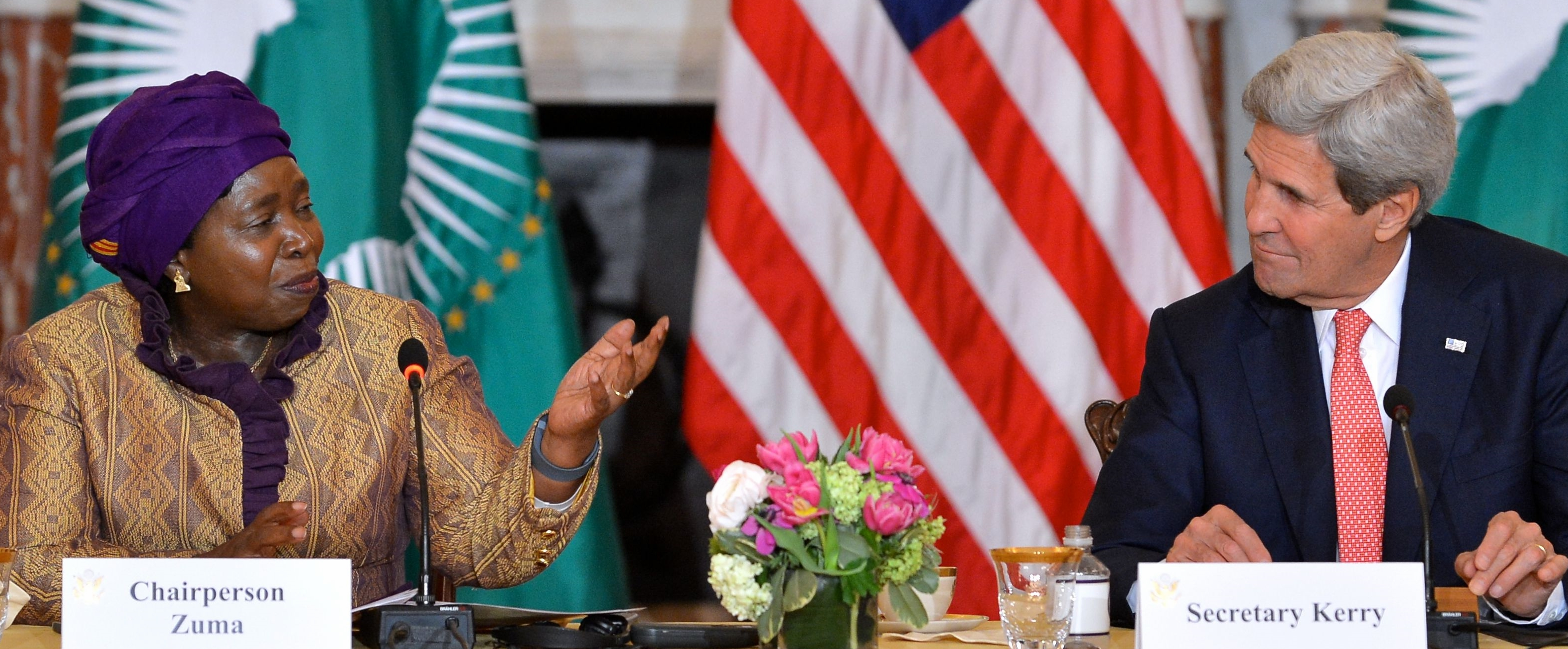 U.S. Secretary of State John Kerry listens as African Union Commission Chairperson Dr. Nkosazana Dlamini-Zuma addresses the third iteration of the U.S.-African Union High Level Dialogue at the U.S. Department of State in Washington, D.C., on April 13, 2015.